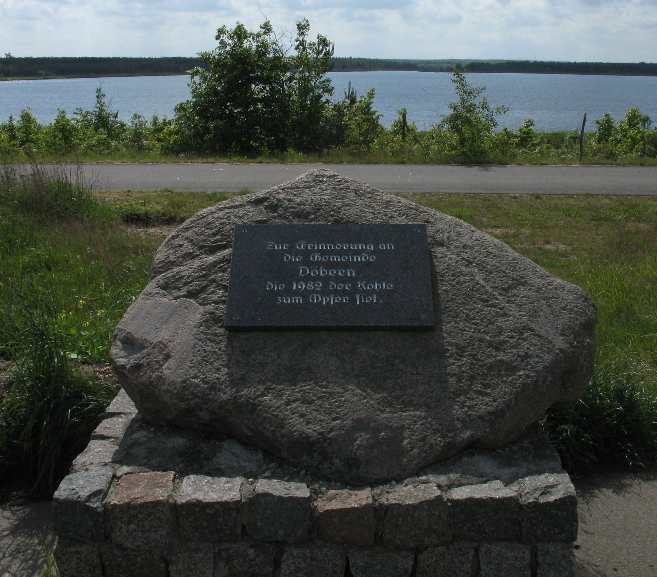 Memorial tablet to Döbern in the municipality Muldestausee in Saxony-Anhalt, Germany